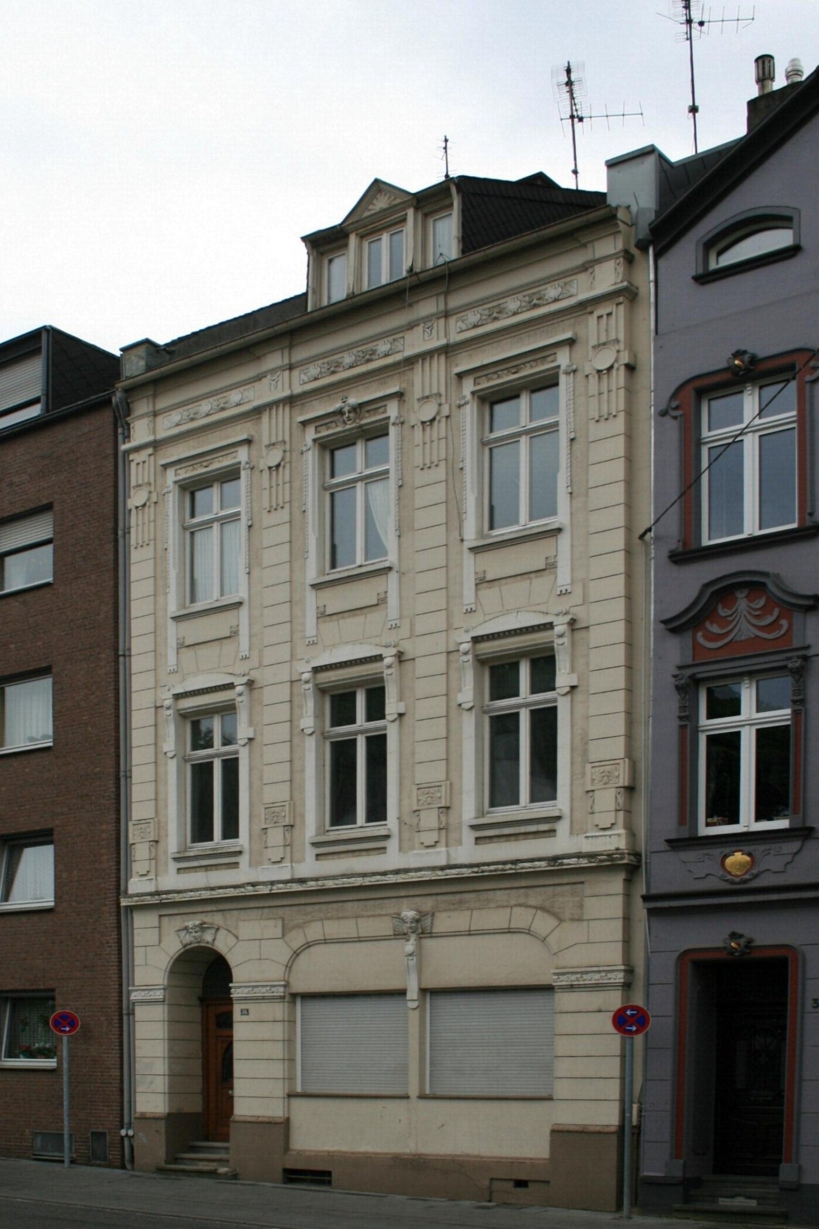 Cultural heritage monument No. G 030 in Mönchengladbach